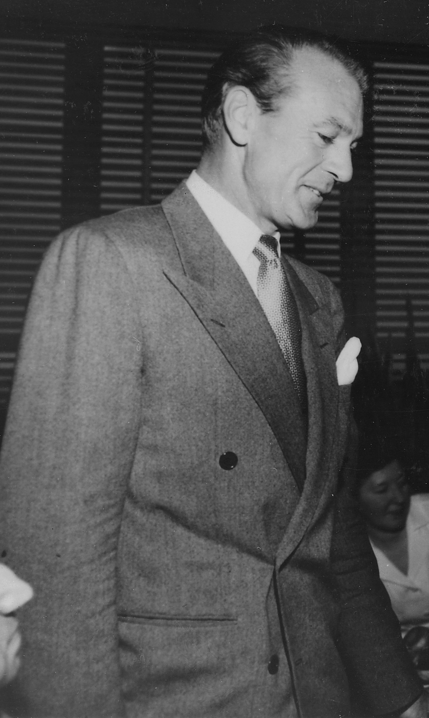 cropped version of File:Eleanor Roosevelt and Gary Cooper at Lake Success, NY 09-2458M original.jpg